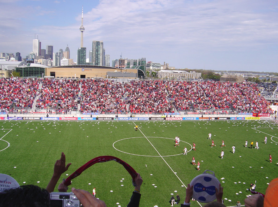 A view from the West Stand of BMO Field immediately after Danny Dichio scored the first goal in Toronto FC History